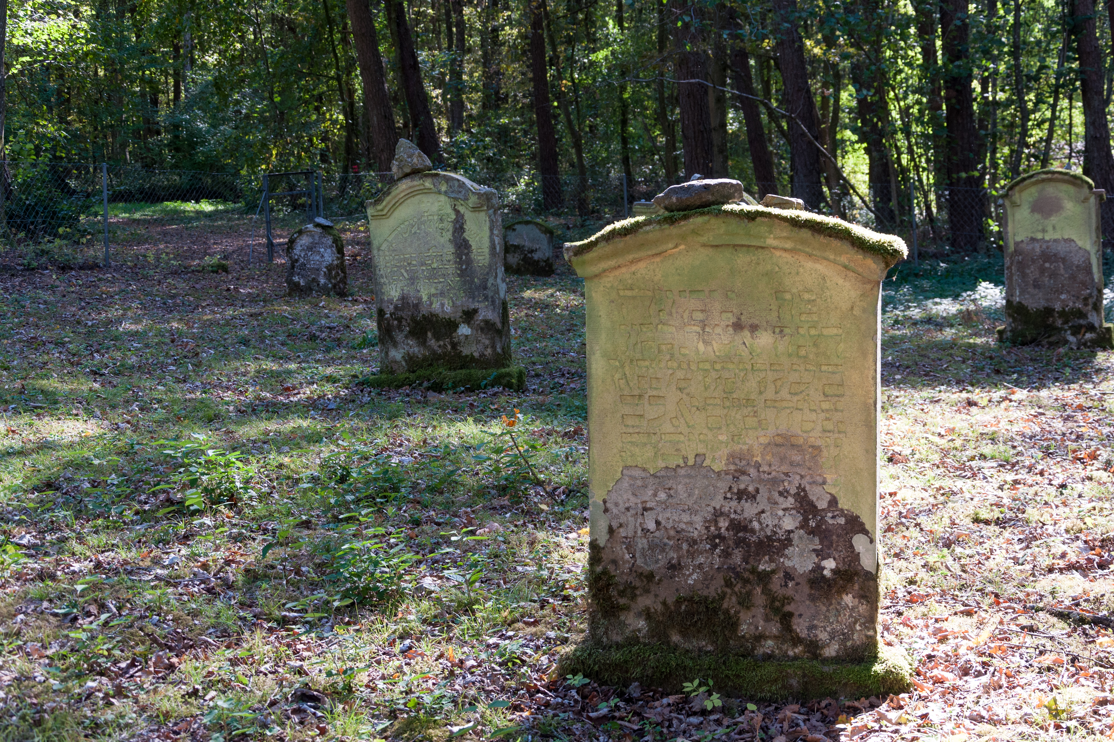 Jewish cemetery near Dörzbach-Laibach, Germany